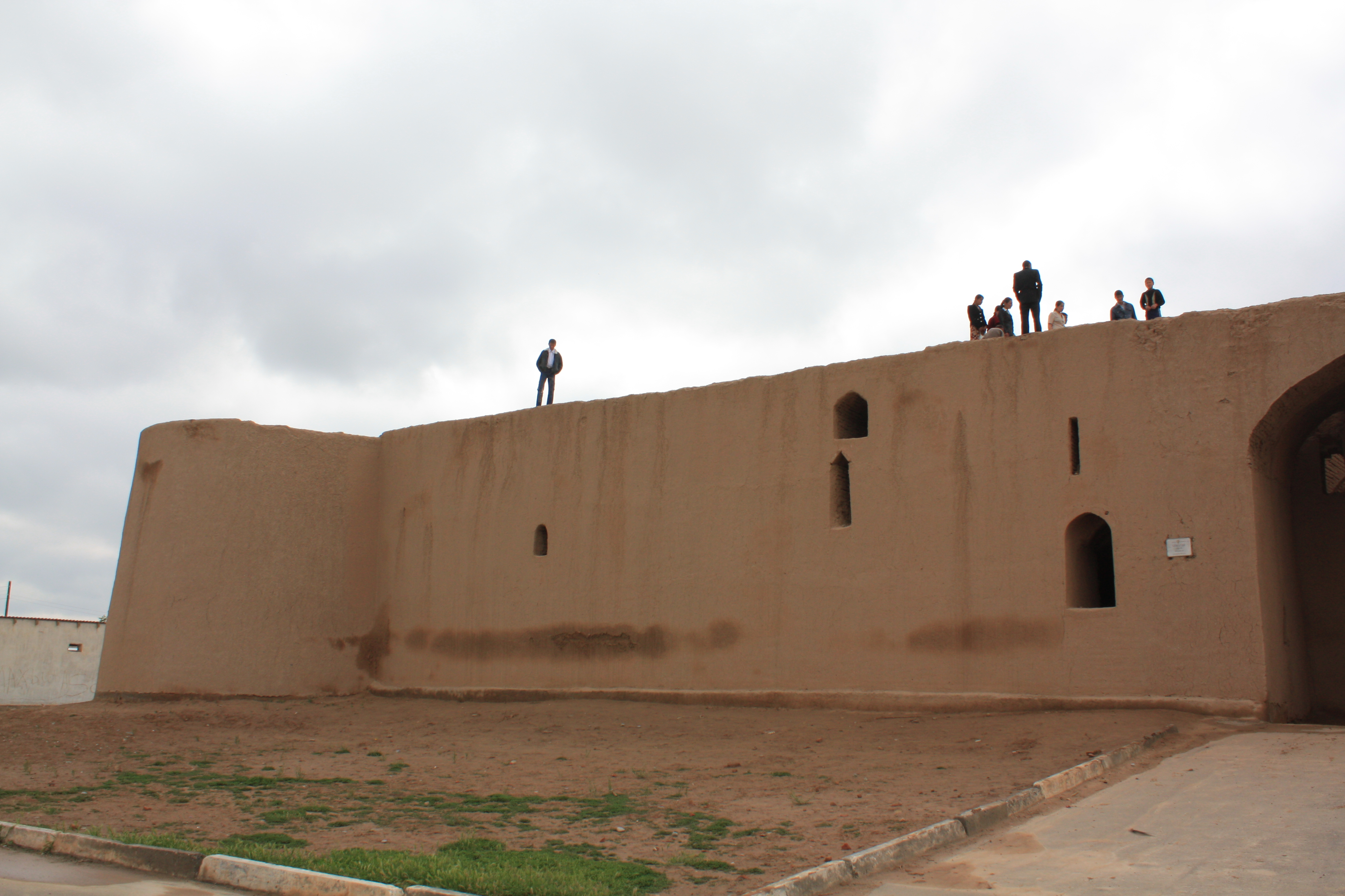 Kirk-Kiz fortress. Exterior view with people standing on the top of the walls.